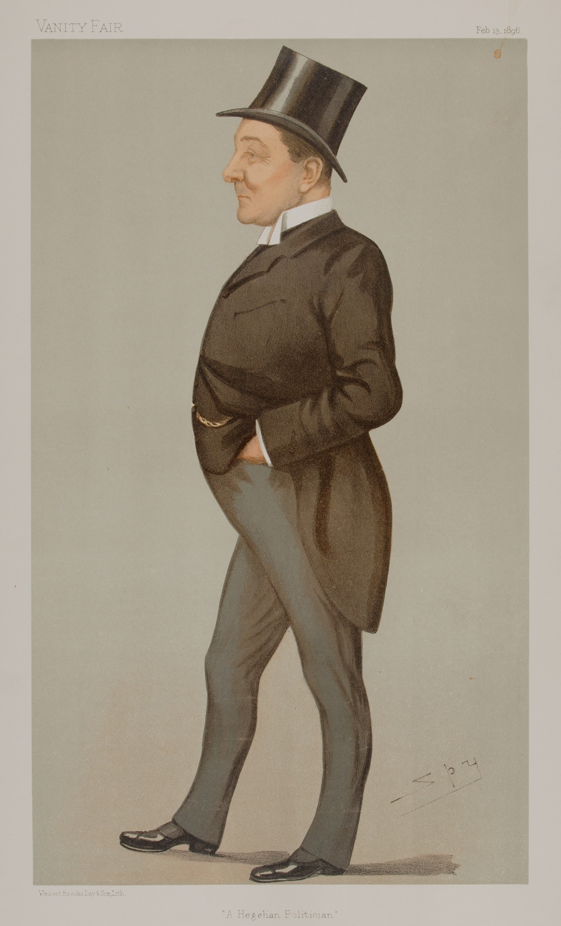 Statesmen No. 666: Caricature of Richard Burdon Haldane, Q.C., M.P.. Caption read "A Hegelian Politician".